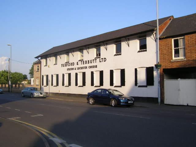 Stilton & Leicester Cheese factory Dating back to 1780, this factory employs over 90 staff to produce only cheese.